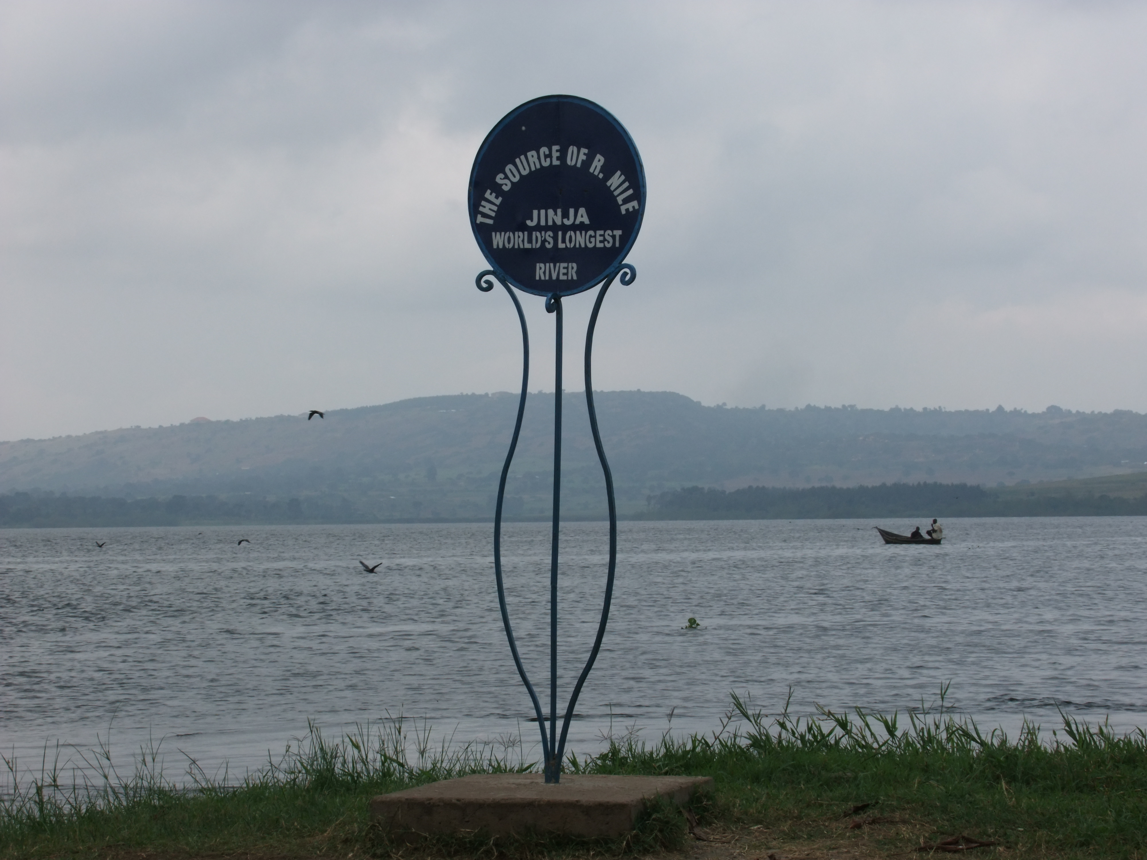 Source of the Nile at Jinja, Uganda